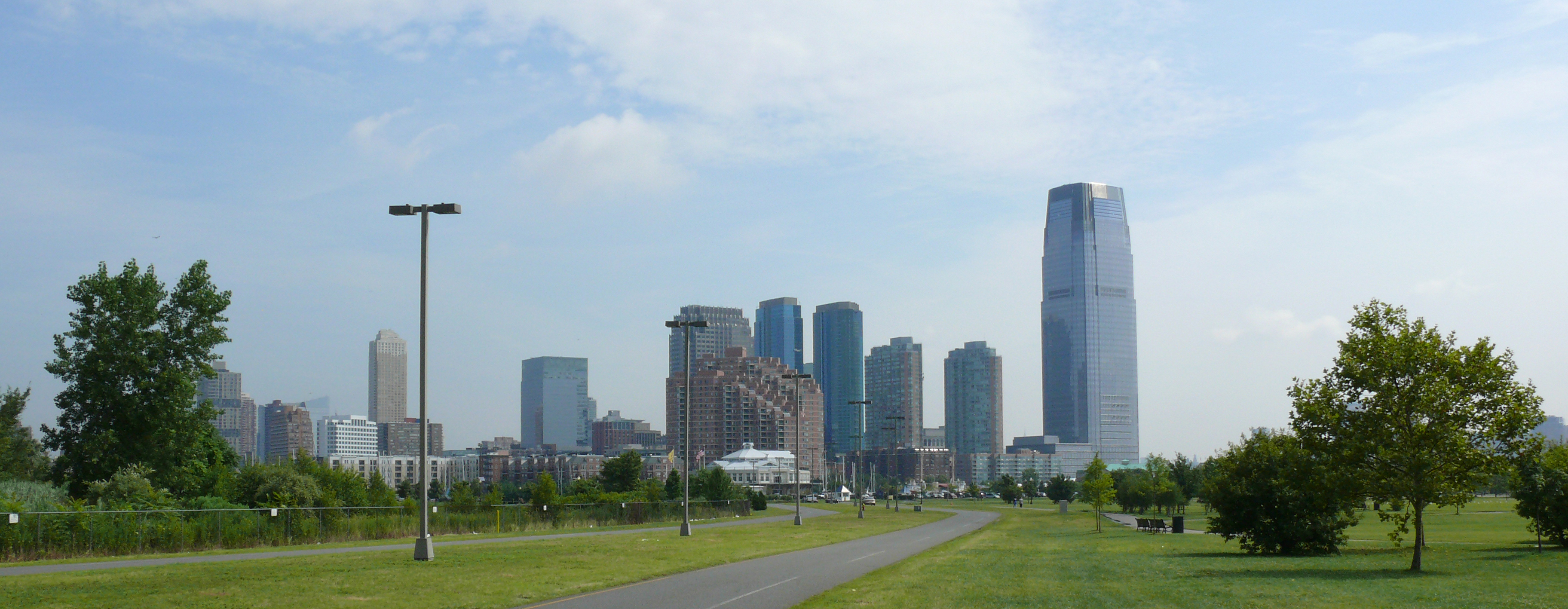 View of Jersey City, NJ as seen from Liberty State Park.